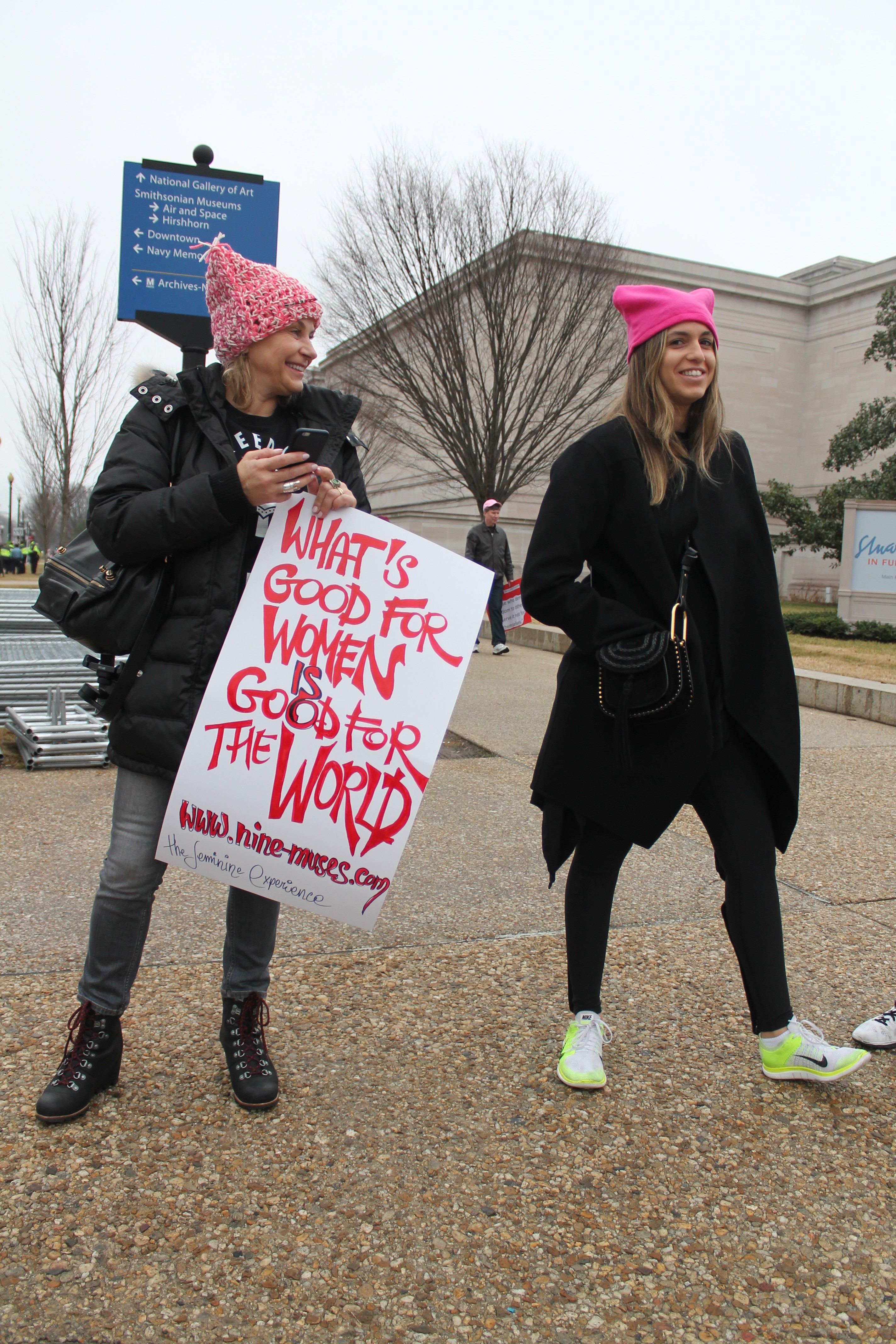 En route to Women's March Rally at Constitution Avenue and 7th Street, NW, Washington DC on Saturday morning, 21 January 2017 by Elvert Barnes Photography Follow Women's March at BEFORE J21 WOMEN'S MARCH 2017 Project: Street Photography Series Elvert Barnes Saturday, 21 January 2017 WOMEN'S MARCH DC docu-project at